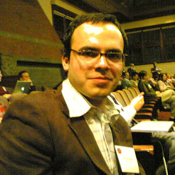 Hossein Derakhshan, Iranian-Canadian journalist and weblogger.